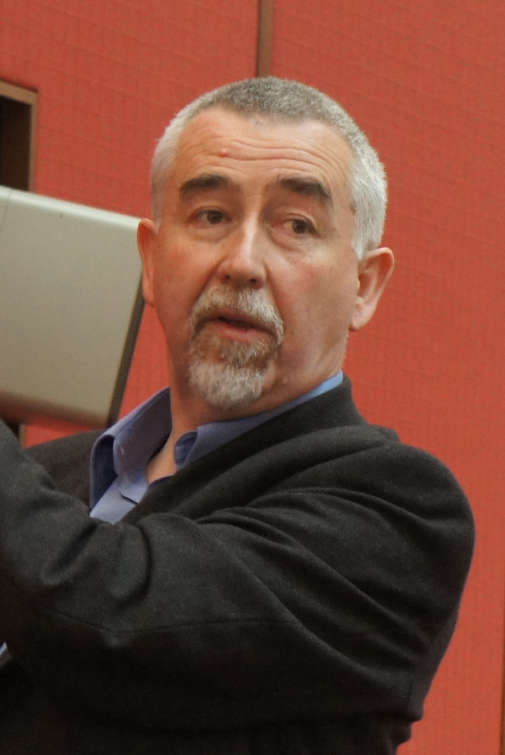 Gary Humphries giving a tour of the Senate chamber during a Parliament House Open Day in September 2010